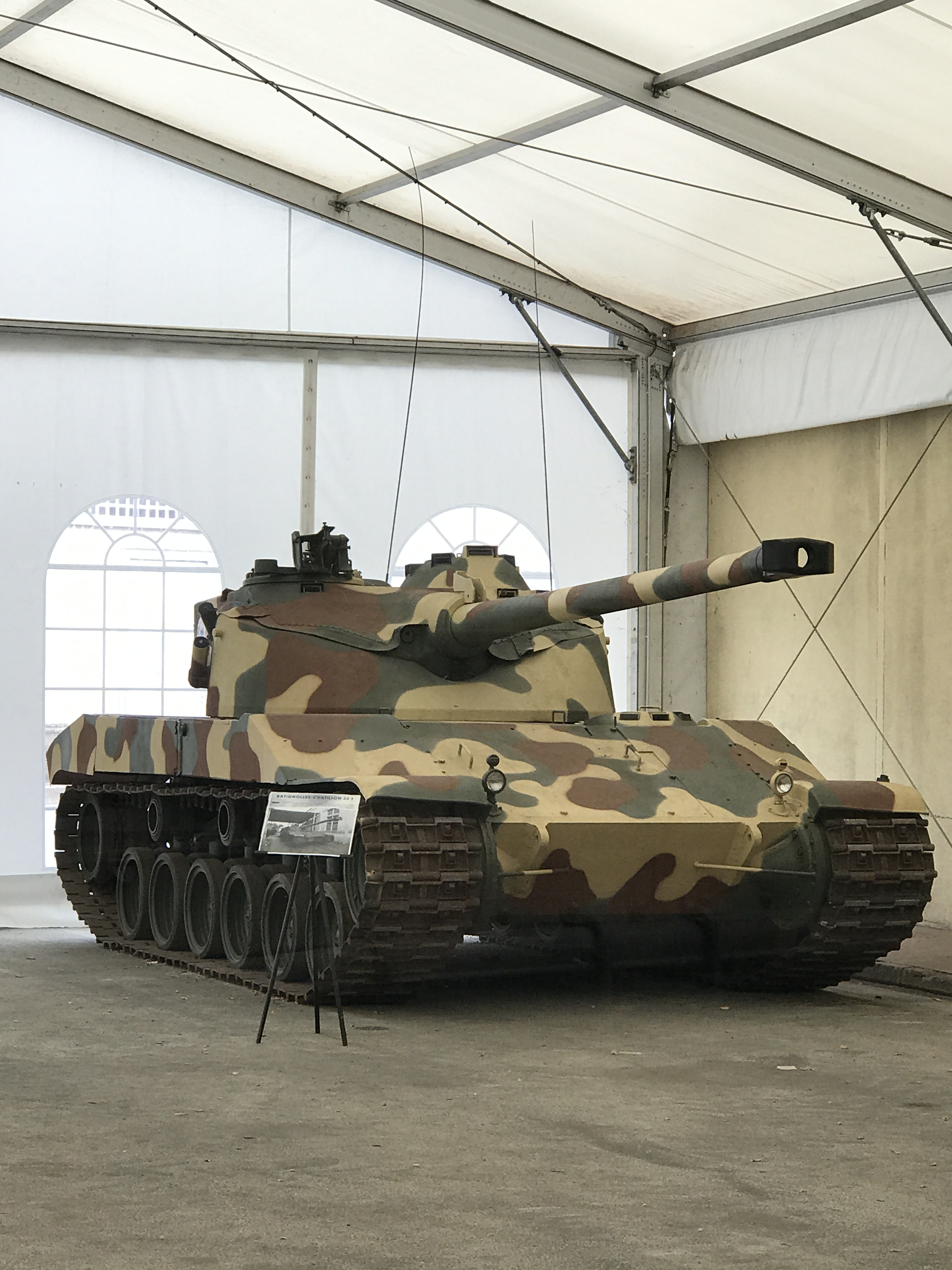 The restored prototype at Musee des Blindes